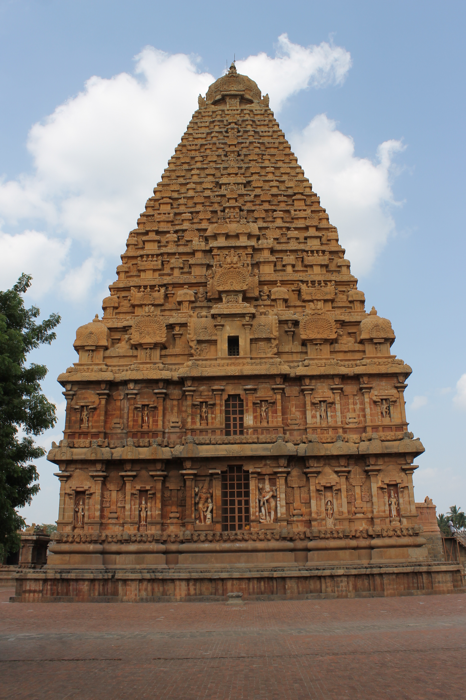 "A Backside Image of Tower The Big Temple". Location: Thanjavur, Tamil Nadu, India. UNESCO declared this monument as world heritage symbol.